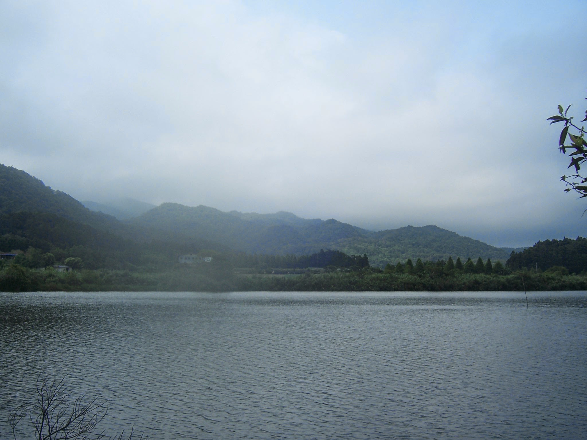 Shuanglian Pond, Yuanshan Township, Yilan County, Taiwan